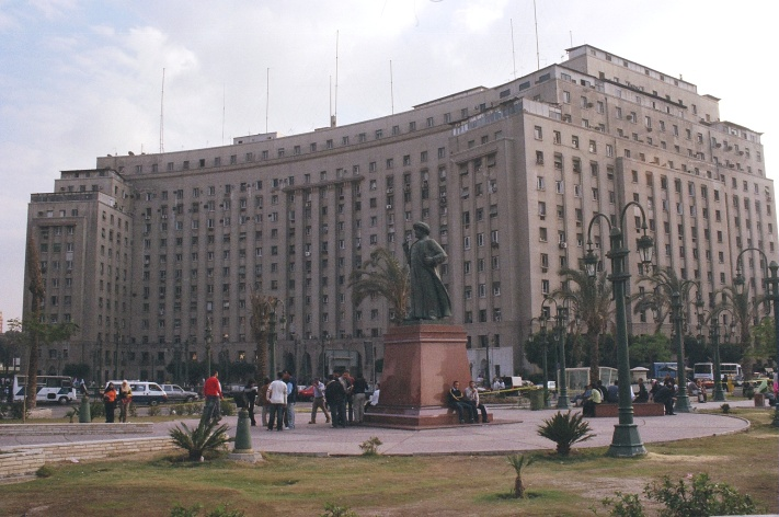 The Mogamma (alternately spelled Mugamma). Famous central government office complex on Tahrir Square in Cairo, Egypt